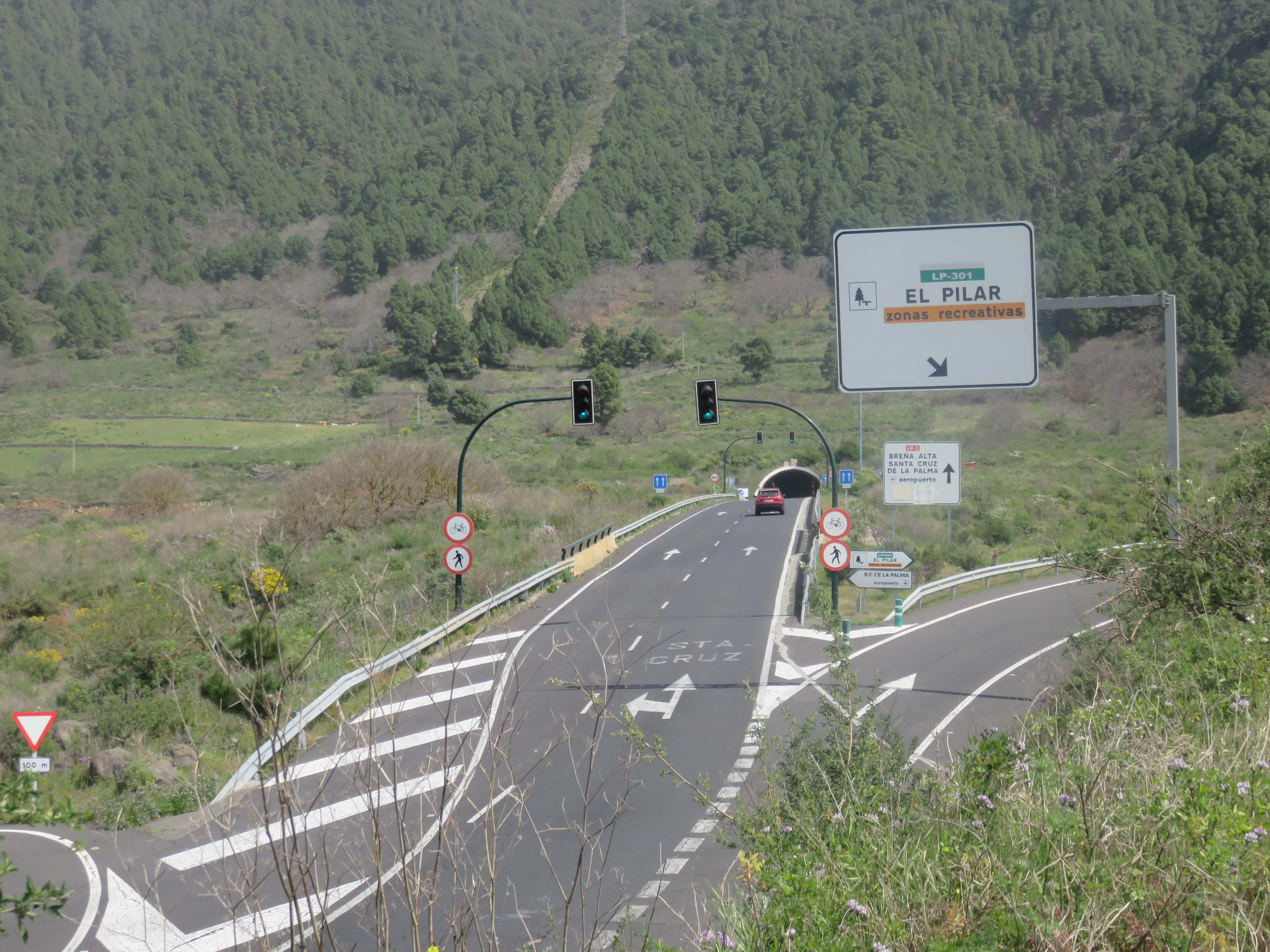 Part of the road the LP-3, access to the new tunnel, to El Paso